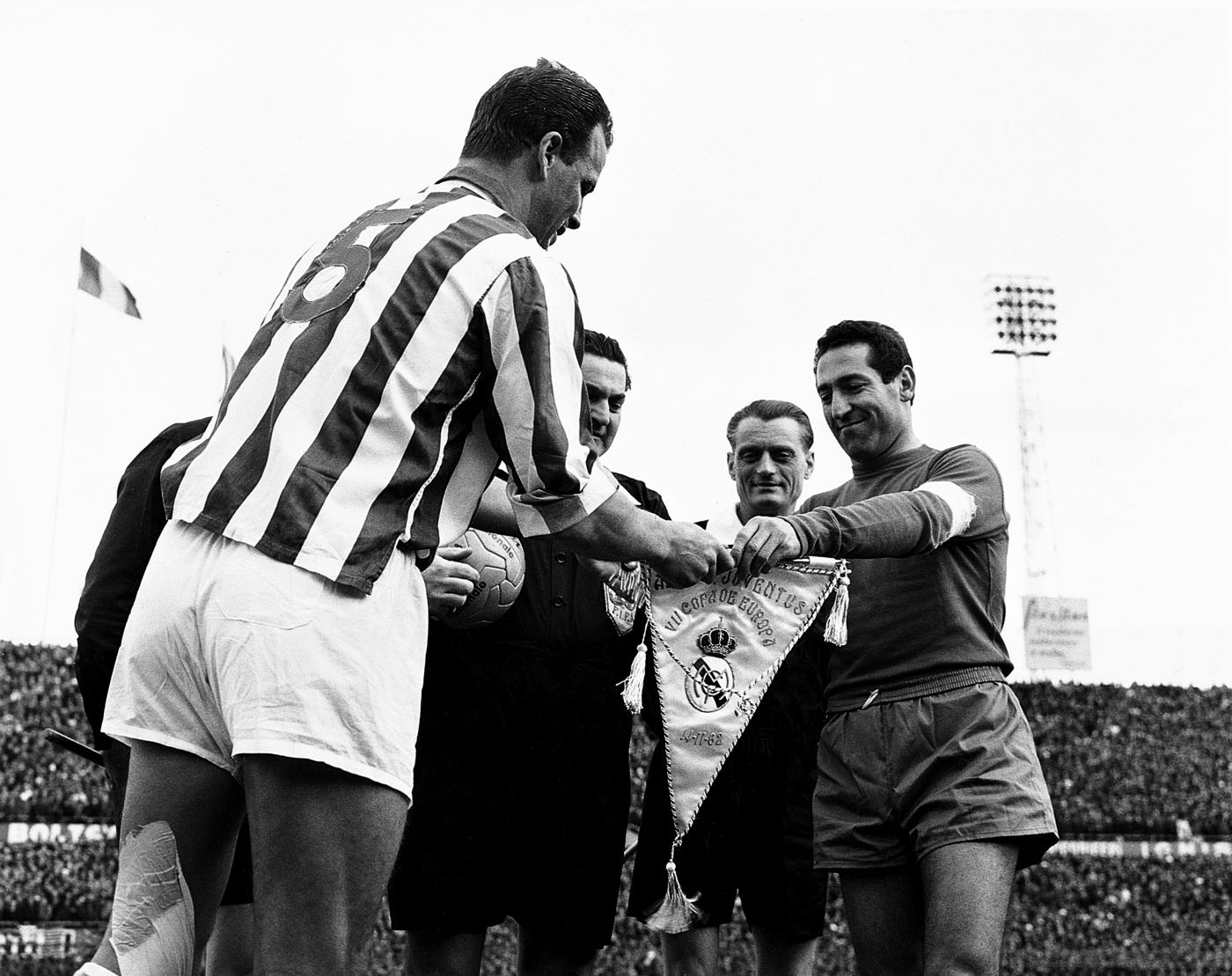 Turin (Italy), Communal Stadium, February 14, 1962. From left to right: the captains of Juventus F.C. and Real Madrid C.F., John Charles and Francisco Gento, before the 1st leg of the quarter-final match of the 1961–62 European Cup (0-1).